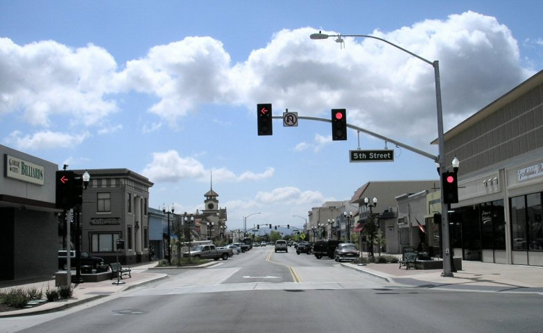 Photo by John Pilge, I am the author.